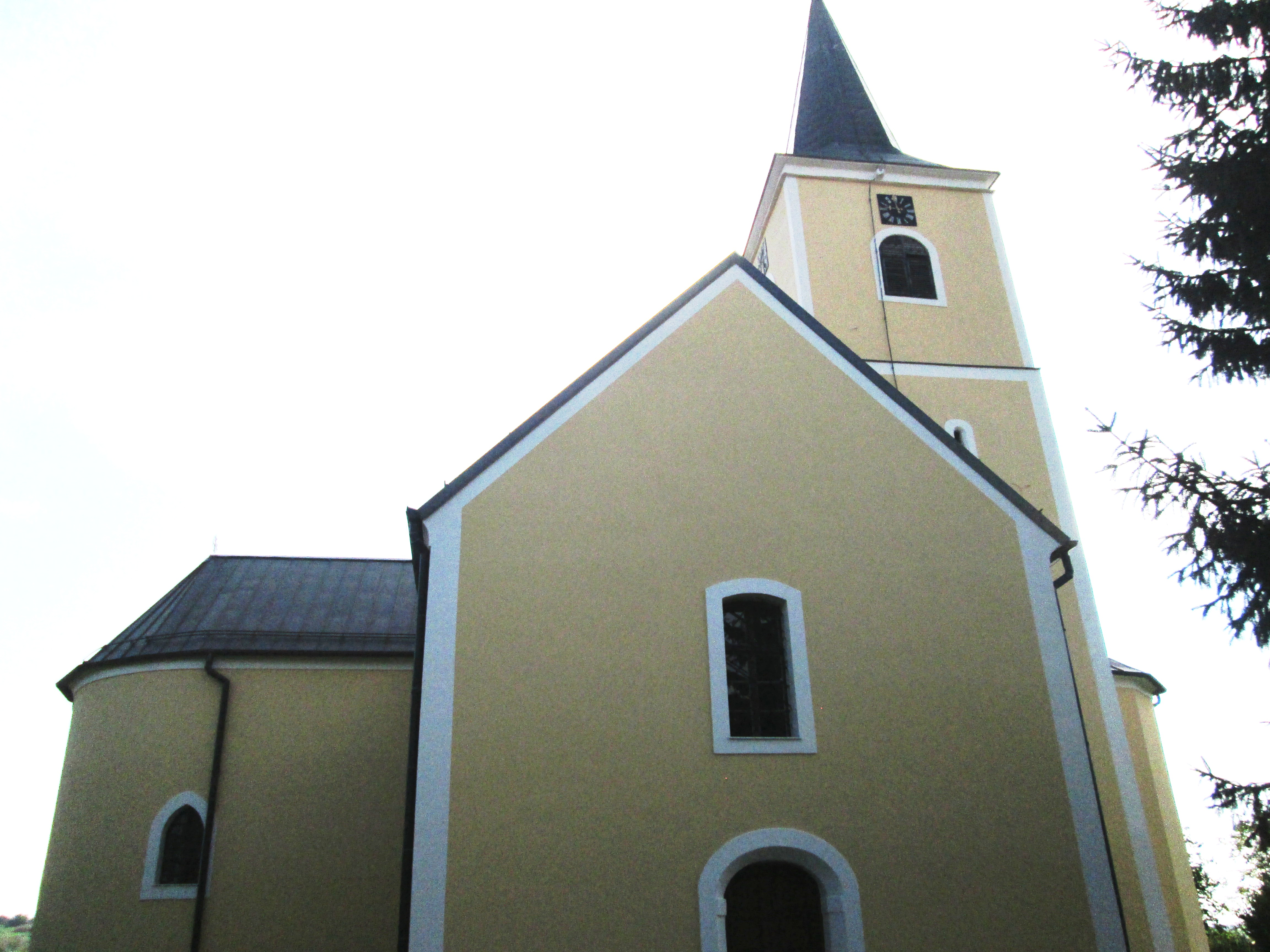 St. Michael Church in Miholec, Croatia.